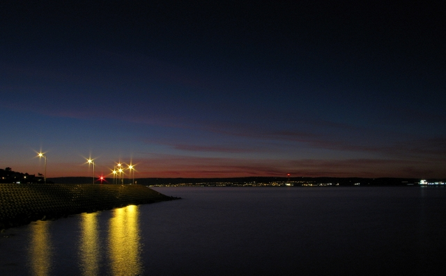 Sunset over Belfast Lough. Autmunal sunset over Belfast Lough as seen from Bangor. The sun has disappeared but there are still glimpses of colour to be seen in the western sky. On the left is the Eisenhower Pier 901431; the lights across the lough are in Carrickfergus, the prominent red light near the centre of picture belonging to the chimney of Kilroot Power Station 723988; the bright lights near the middle right of picture belong to an oil tanker anchored in the lough.